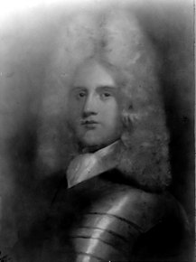 Portrait of Benedict Calvert, 4th Baron Baltimore (1679-1715)